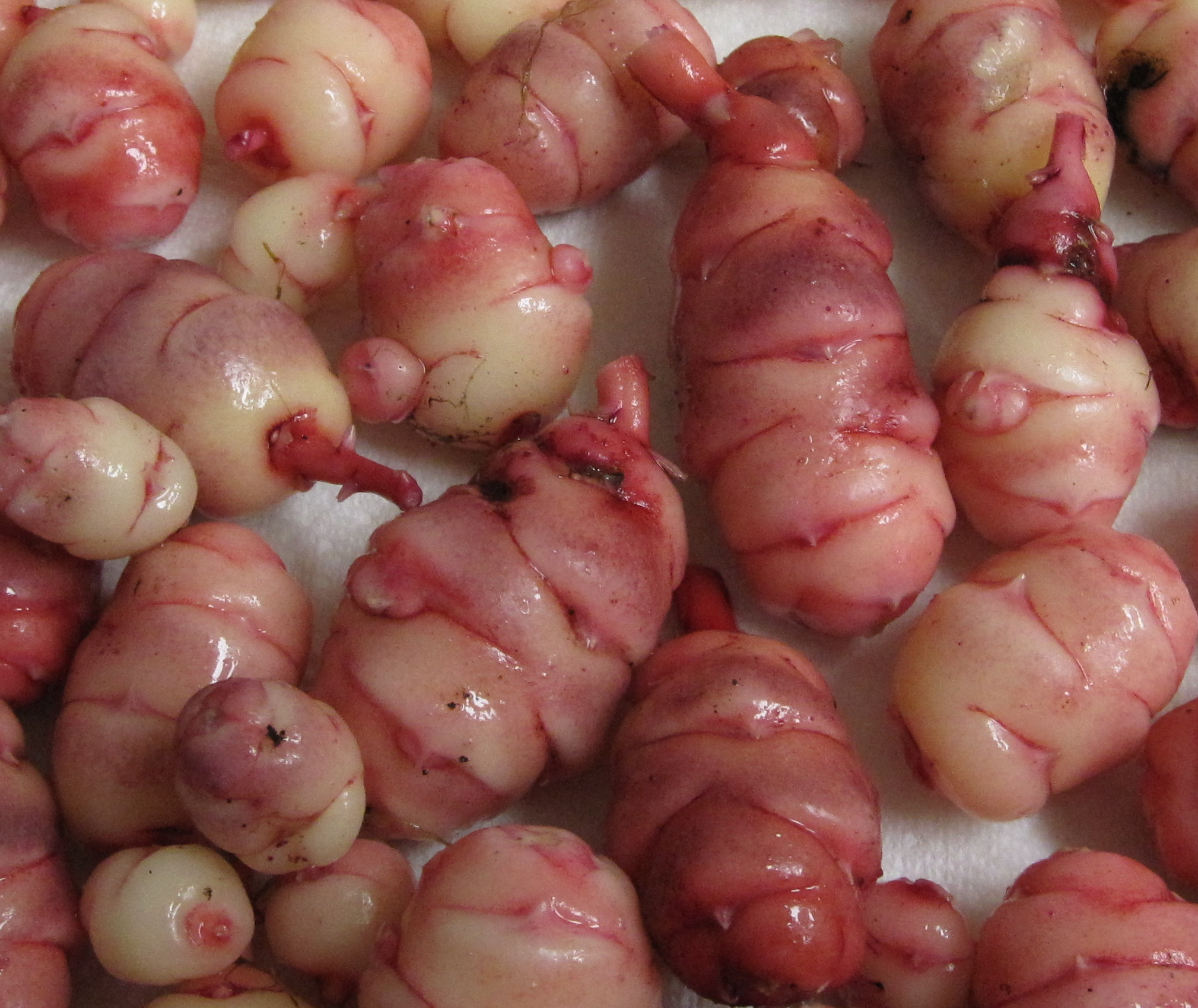 A rose-purple variety of oca